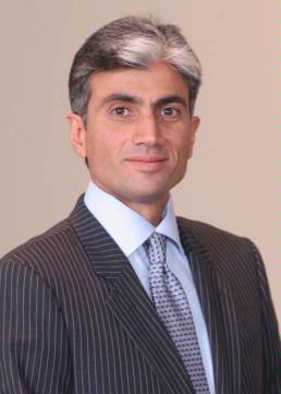 Profile Picture